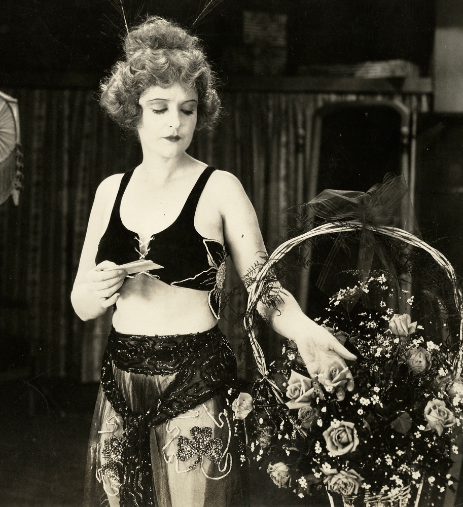 Still from the American film Almost Married (1919) with May Allison, page 1347 of the May 31, 1919 Moving Picture World.